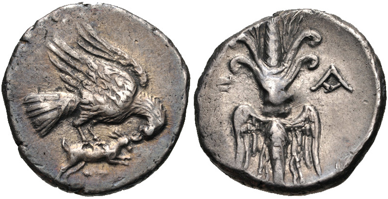 Drachma, 244-208 BC, Olympia. 134-143th Olympiad